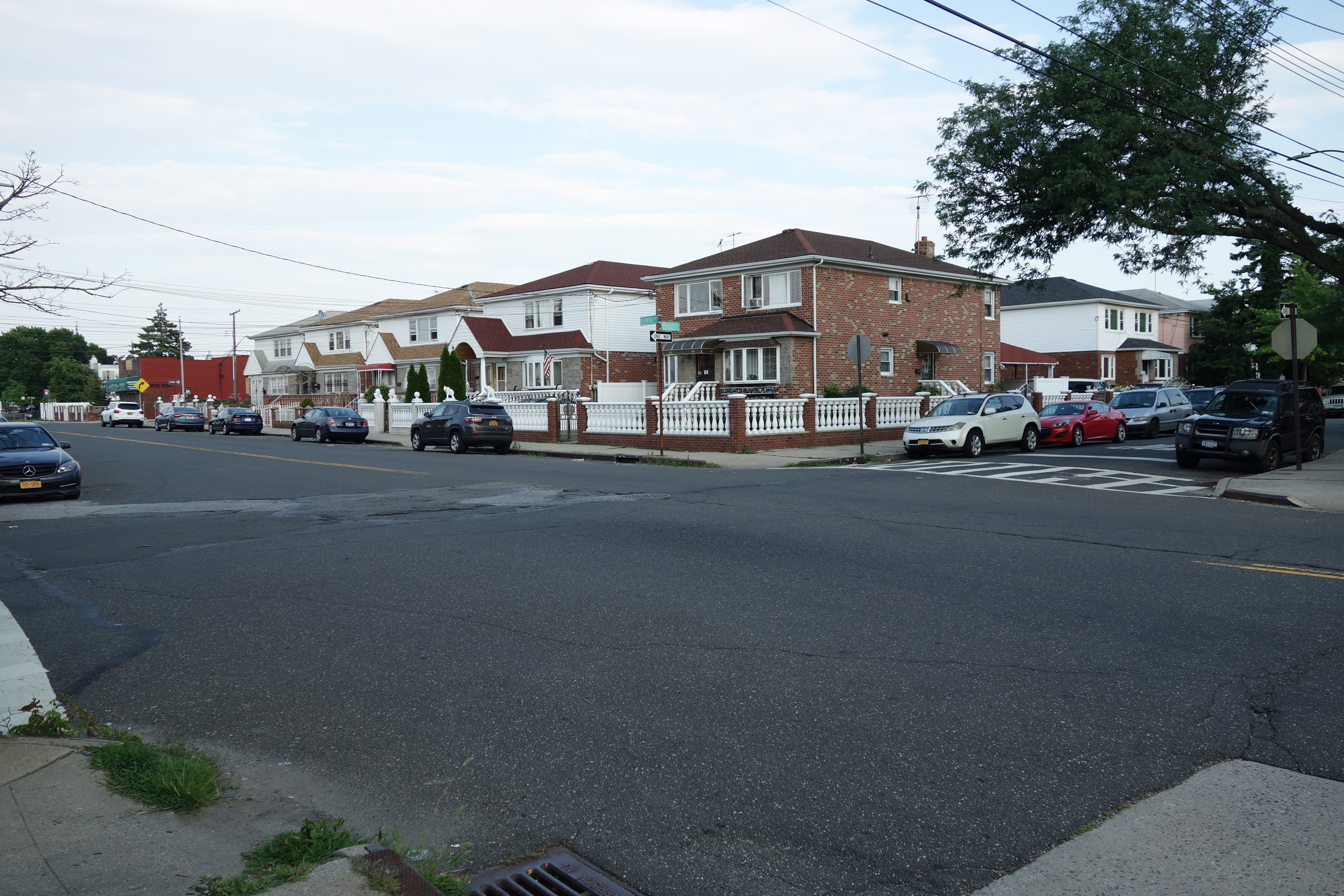 The intersection of Pitkin Avenue and 76th Street (Emerald Street) in Ozone Park, Queens just east of City Line, Brooklyn. This is the site of the once planned 76th Street IND subway station, which was proposed as part of an extension of the Fulton Street subway; it was never officially constructed, but several rumors persist that it was partially built in the 1940s/1950s. The absence of typical subway infrastructure, mainly street grates, would suggest that the station was not built. However, many of the houses in the area were built in the 1950s or even later, and satelite images from that time show that much of the area was vacant and undeveloped. So, it's not impossible.